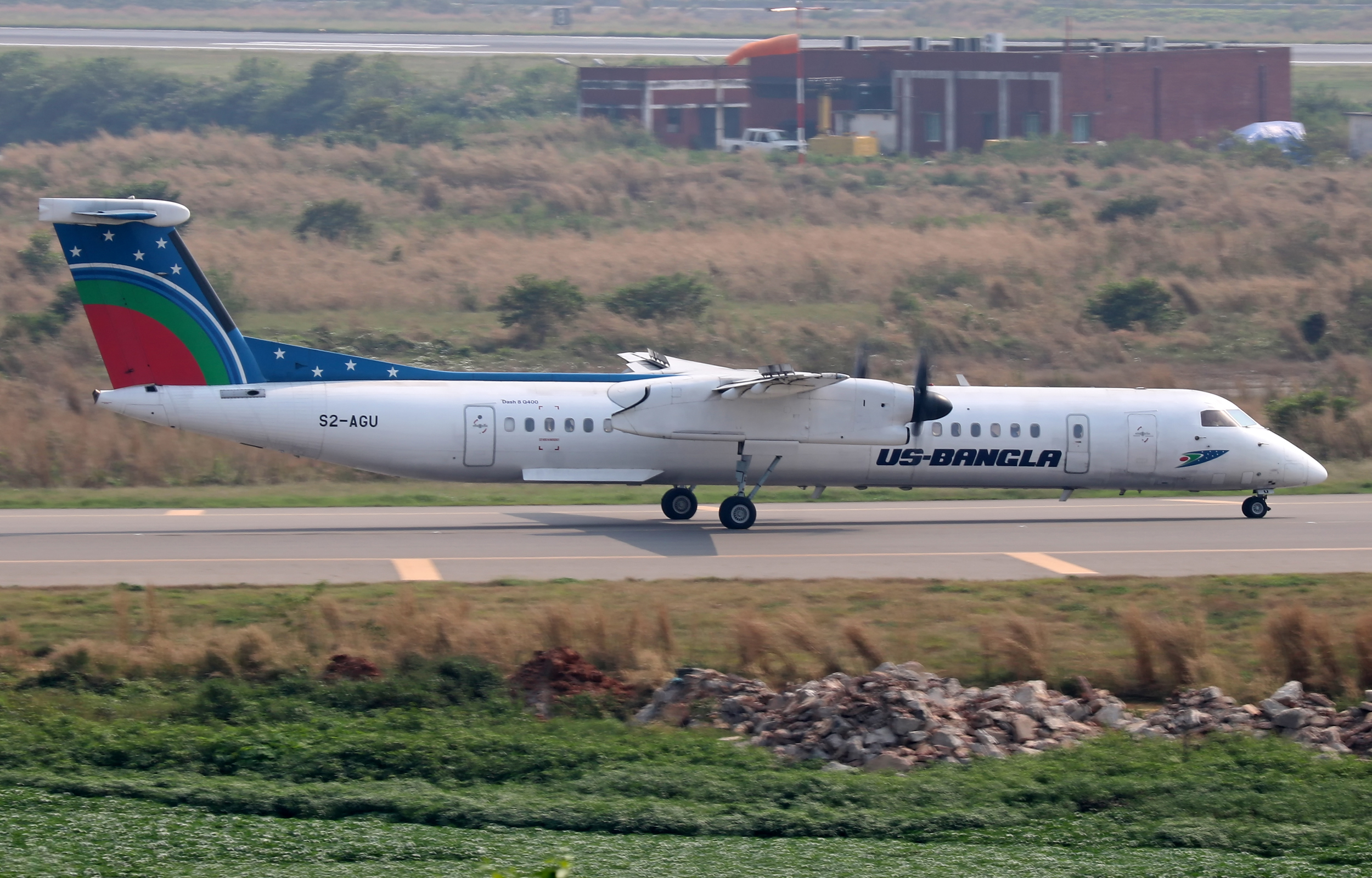 VGHS 2018: My last shot of this bird, as shot on March 6, 2018.